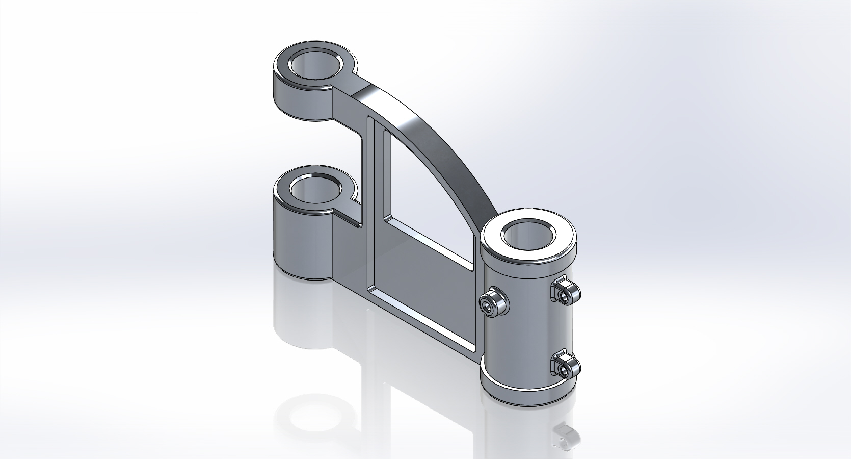 A part model generated on a CAD platform ಕನ್ನಡ: ಗಣಕ ನೆರವಿನ ವಿನ್ಯಾಸದ ಮೂಲಕ ರಚಿಸಿದ ಒಂದು ಮಾಡೆಲ್